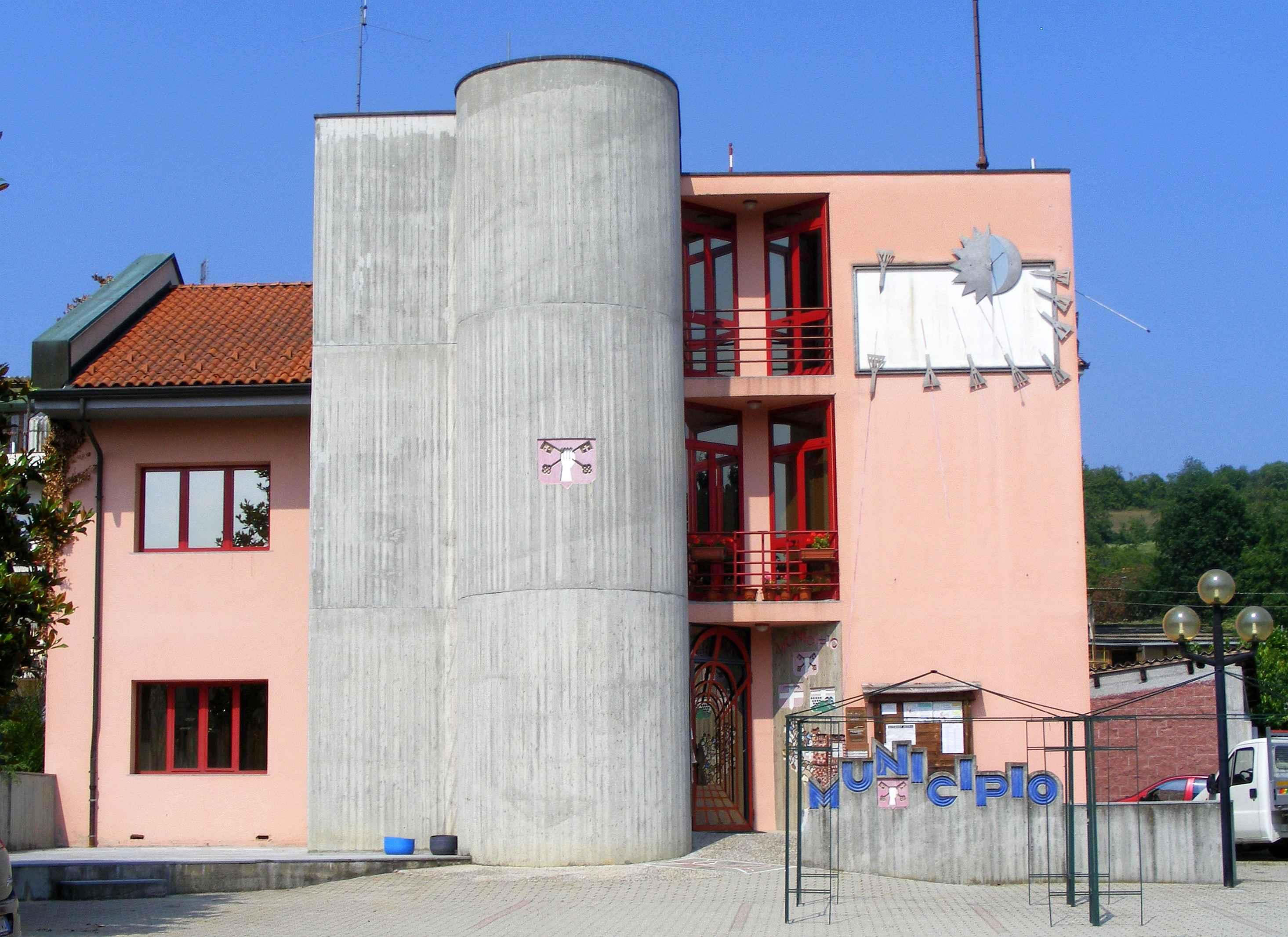 Berzano di San Pietro (AT, Italy): town hall